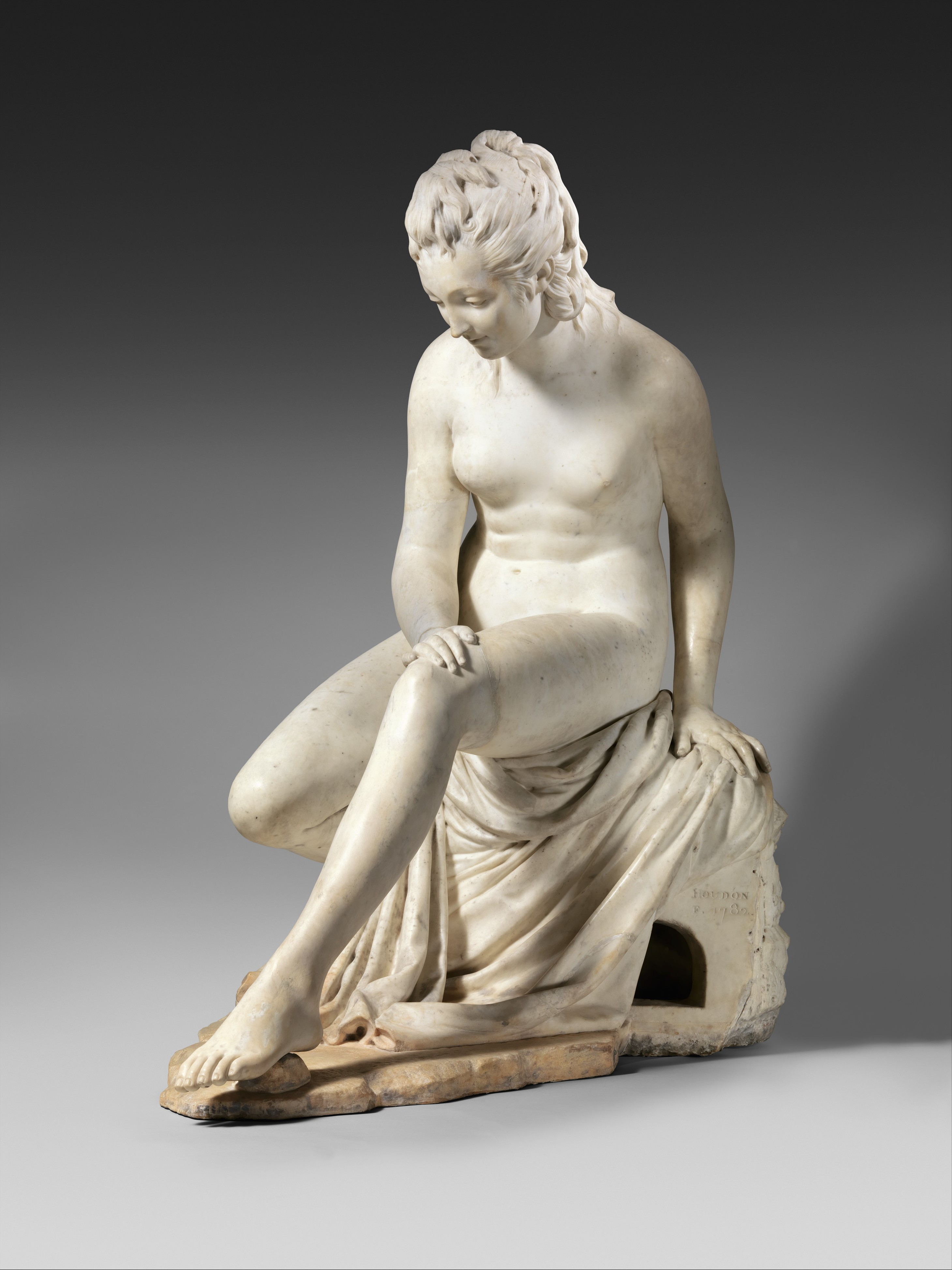 French, Paris; Statue; Sculpture